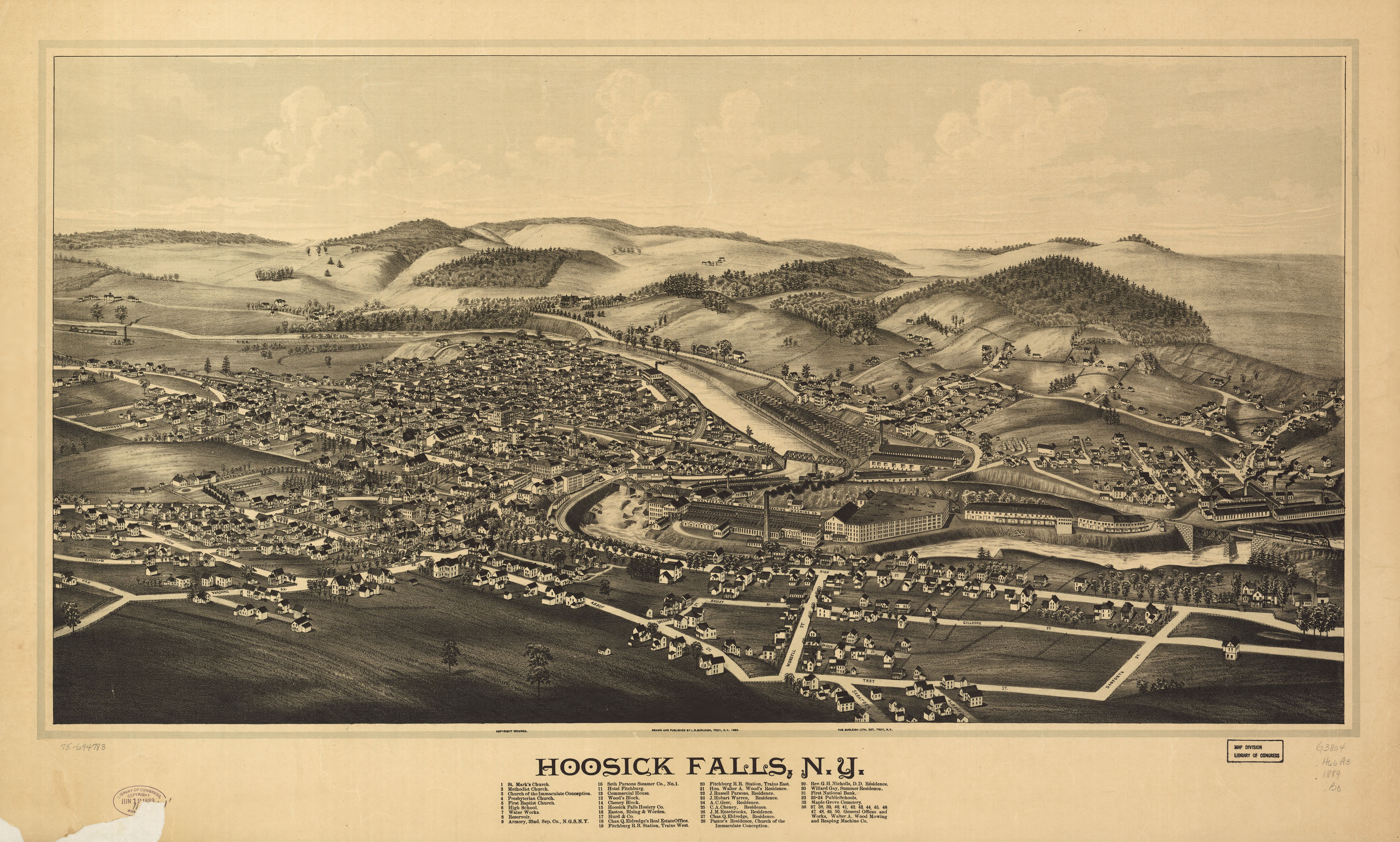 Perspective map not drawn to scale. Bird's-eye-view. LC Panoramic maps (2nd ed.), 572 Available also through the Library of Congress Web site as a raster image. Indexed for points of interest. AACR2